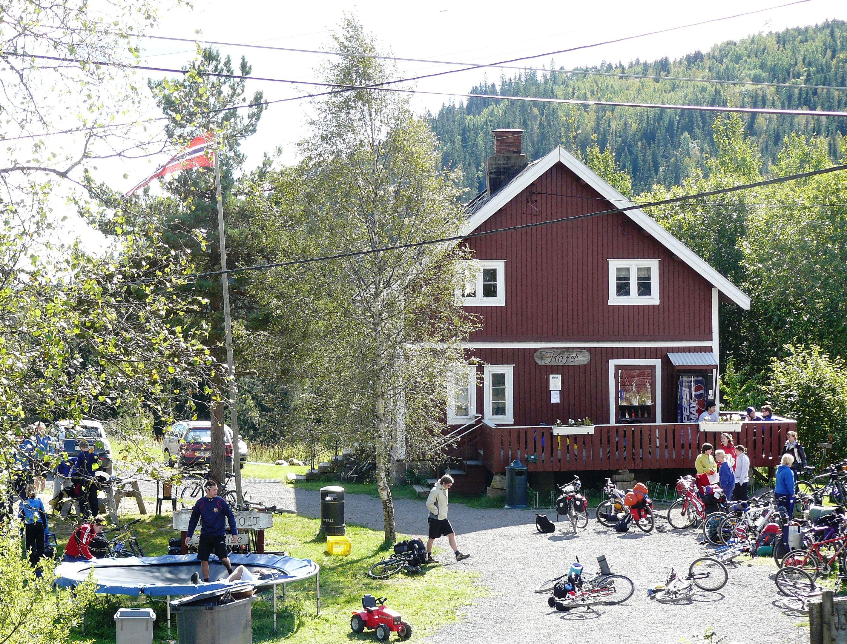 Bjørnholt, Nordmarka, Oslo